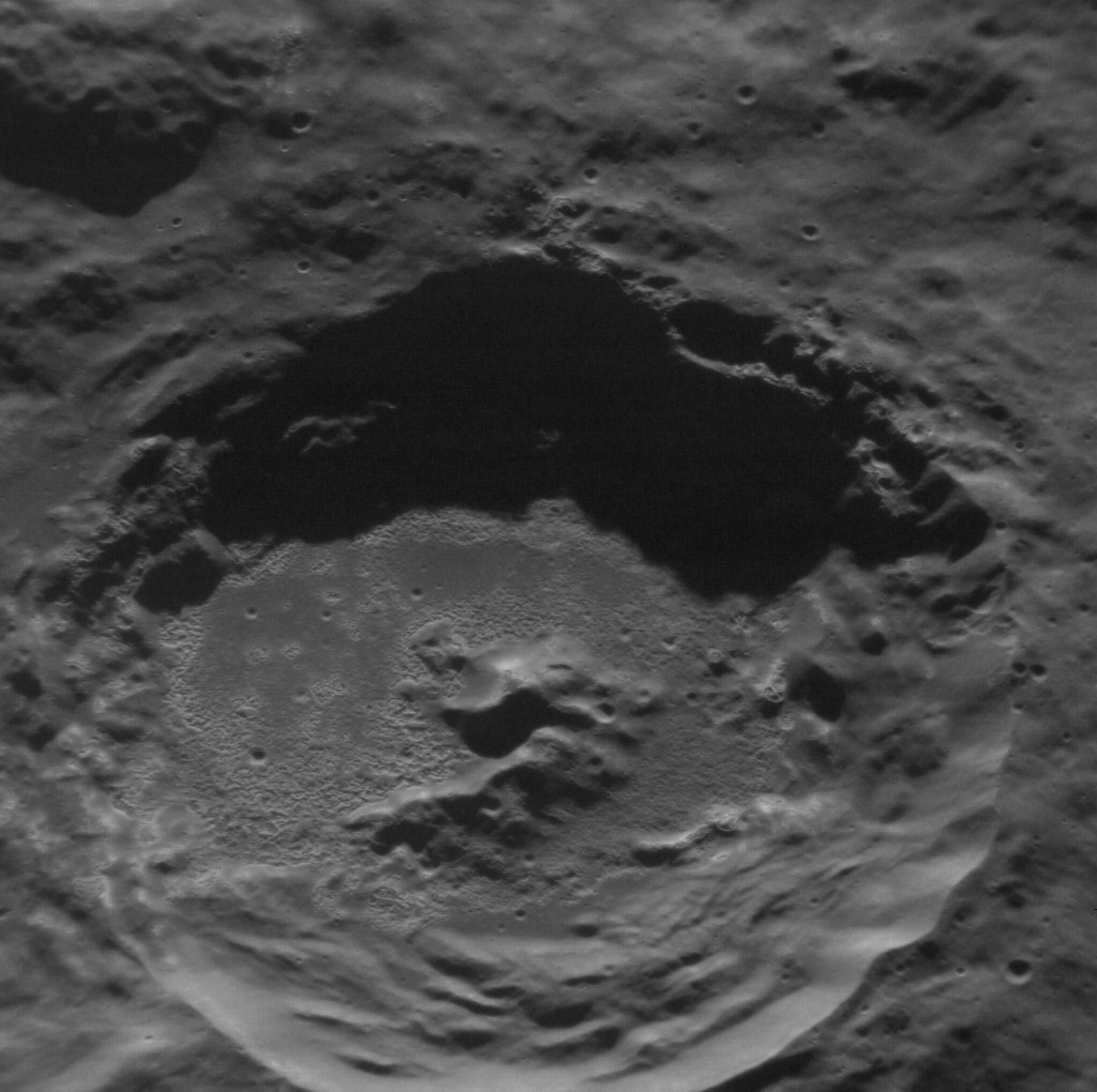 Oblique view of Kyōsai crater on Mercury. MESSENGER Narrow Angle Camera image. This is the highest resolution image of Kyōsai crater obtained by MESSENGER. Approximate north is to the left. Width is about 38 km in foreground at bottom. Emission Angle: 35.8 Incidence Angle: 75.0 Latitude: 25.1 Longitude: 5.2 Phase Angle: 110.8